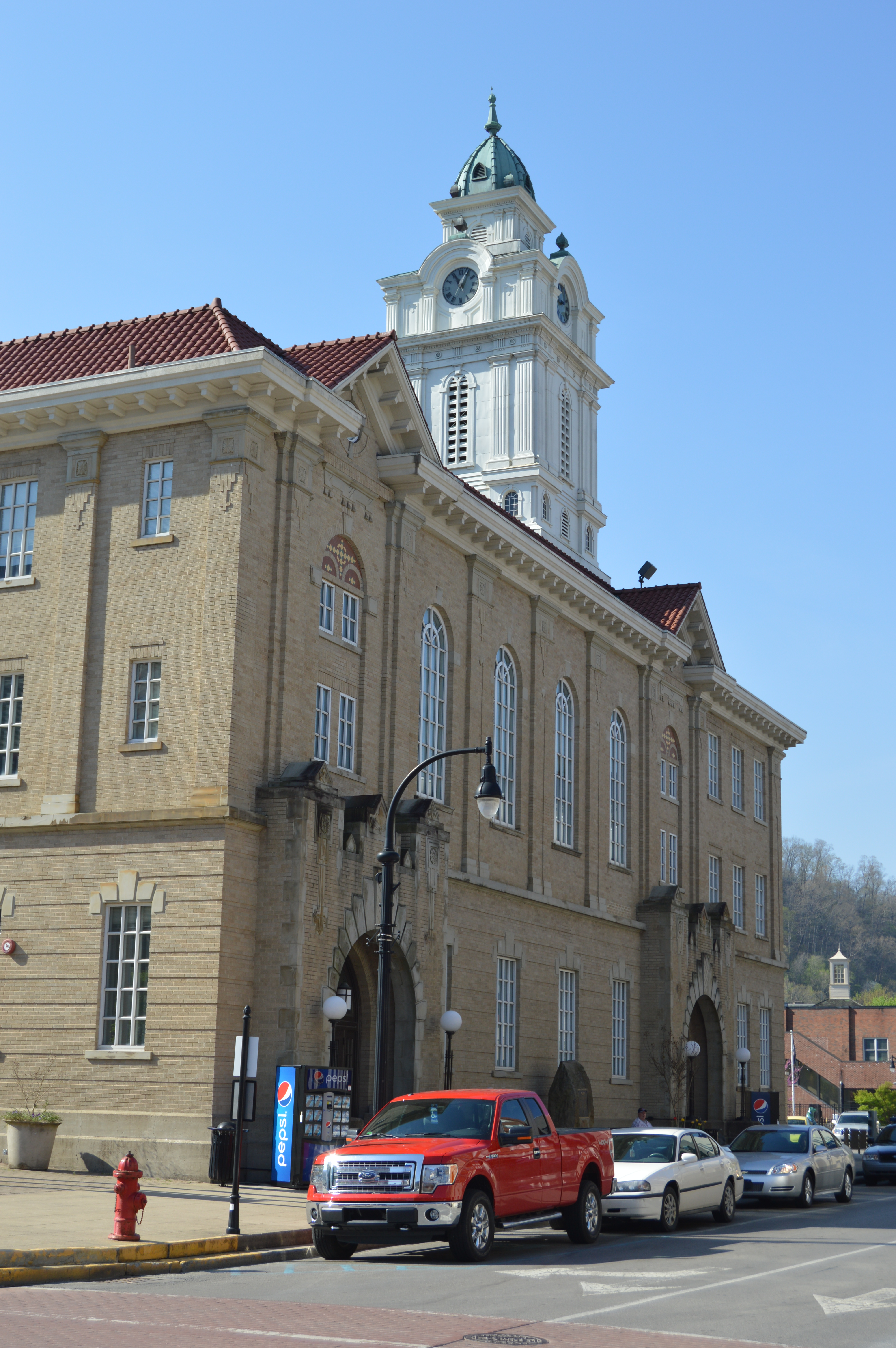 Front of the Pike County Courthouse, located on Main Street between Grace and Division Avenues in downtown Pikeville, Kentucky, United States. Built in 1887 and greatly modified in 1932, it is part of the Hatfield-McCoy Feud Historic District, a historic district that is listed on the National Register of Historic Places.